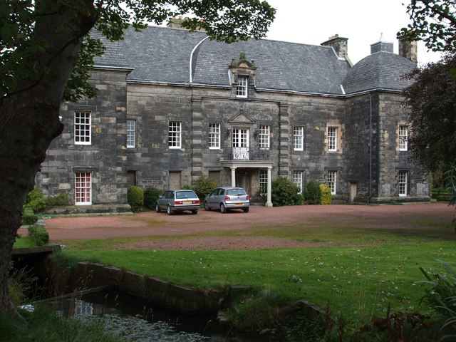 Caroline Park House In 1683 Sir George MacKenzie of Tarbat bought Royston estate and house originally built in 1585, he considerably altered it.In 1739 it was sold to the second Duke of Argyll who renamed it Caroline after his daughter,Countess of Dalkeith.He employed William Adam to make further changes to the house. Amongst much else of interest in the State Drawing Room is a small hinged pane in a window - a 'wig window', where gentlemen could shake the powder from their wigs. The only one I have seen or have knowledge of. out the window.